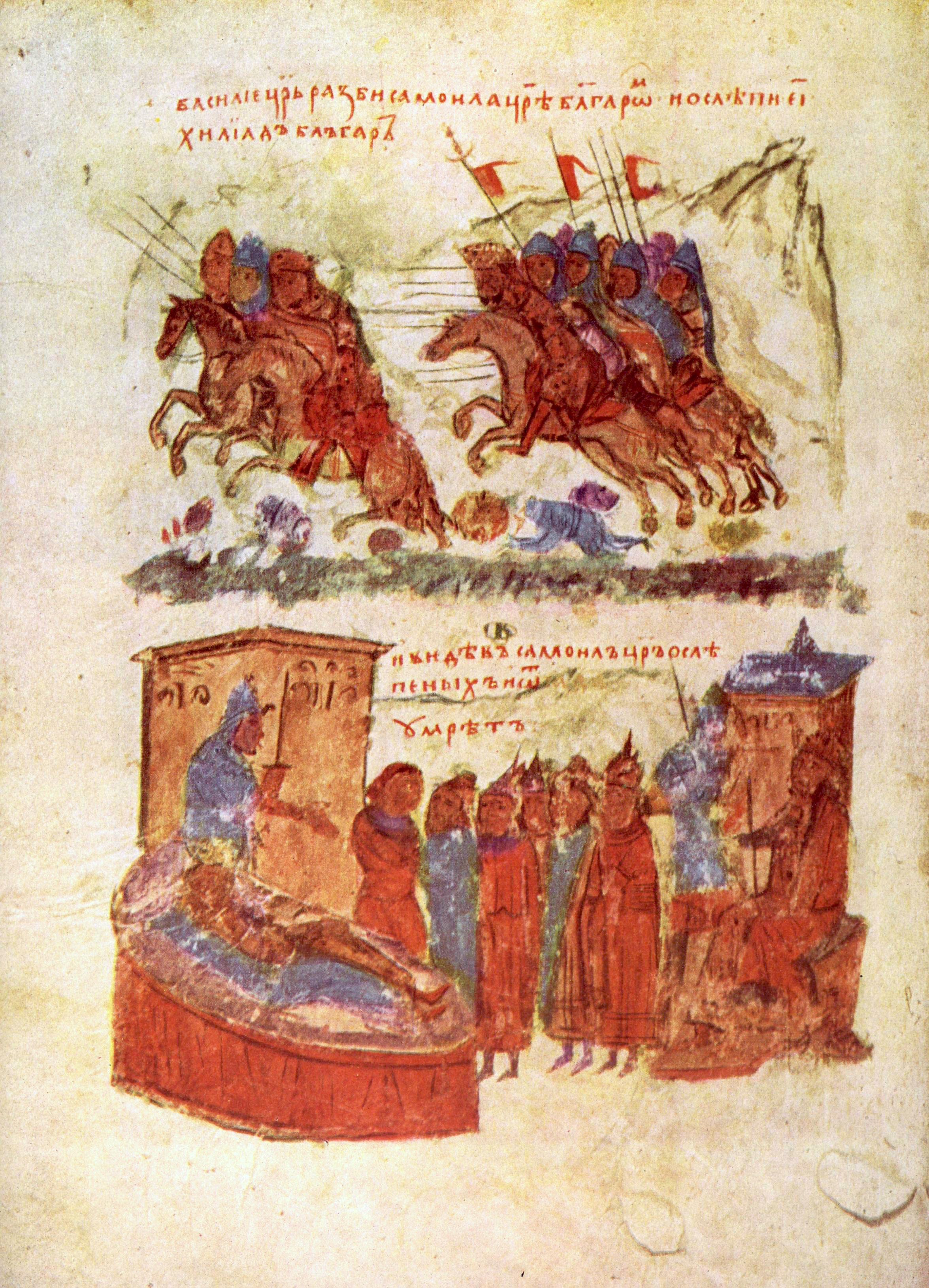 Miniature 66 from the Constantine Manasses Chronicle, 14 century: Defeat of tsar Samuil from Basil II and the return of his blinded soldiers